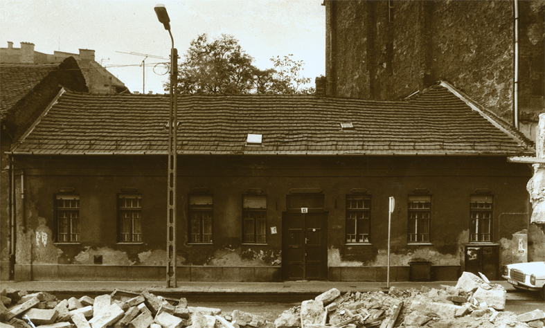 Budapest, District VIII, Kis Stáció Street Nr 13. Between 1925 and 1939 this house was owned by Mr. Szilárd Sződy Hungarian sculptor, with a workshop in the yard. It was demolished in 1995.